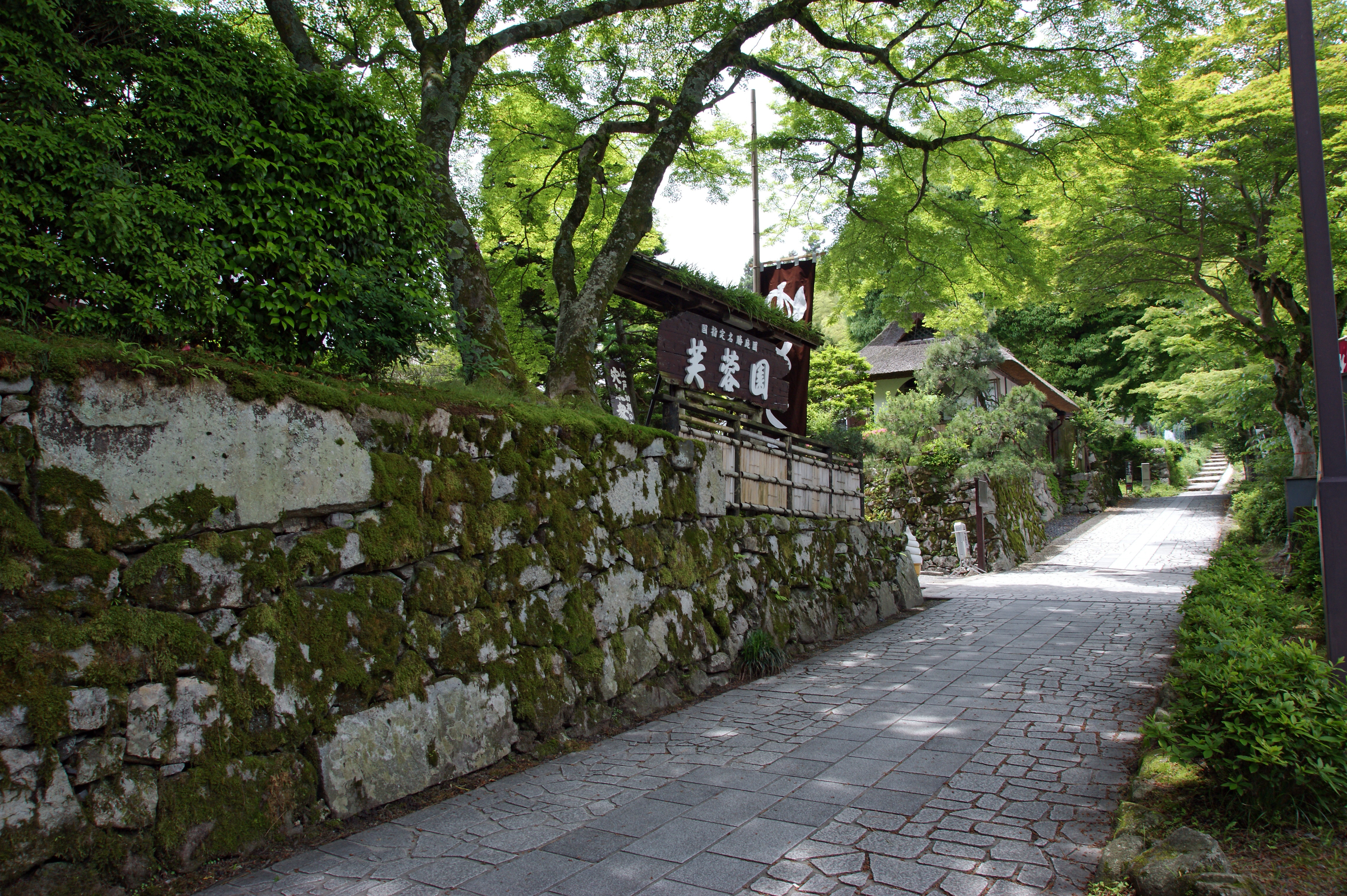 Old Byakugoin in Sakamoto, Otsu, Shiga prefecture, Japan